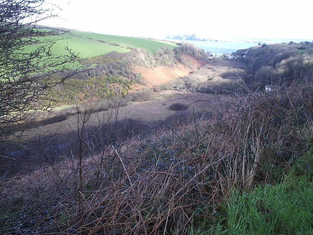 The Cwm, Dinas island. This shot, taken above Pwllgwaelod looking northeast towards Cwm-yr-Eglwys, shows the deep, swampy, glacial valley that forms the neck of the peninsula and that may at one time have been submerged. Now the two hamlets are linked by a smooth, level path that has been made accessible for wheelchairs.